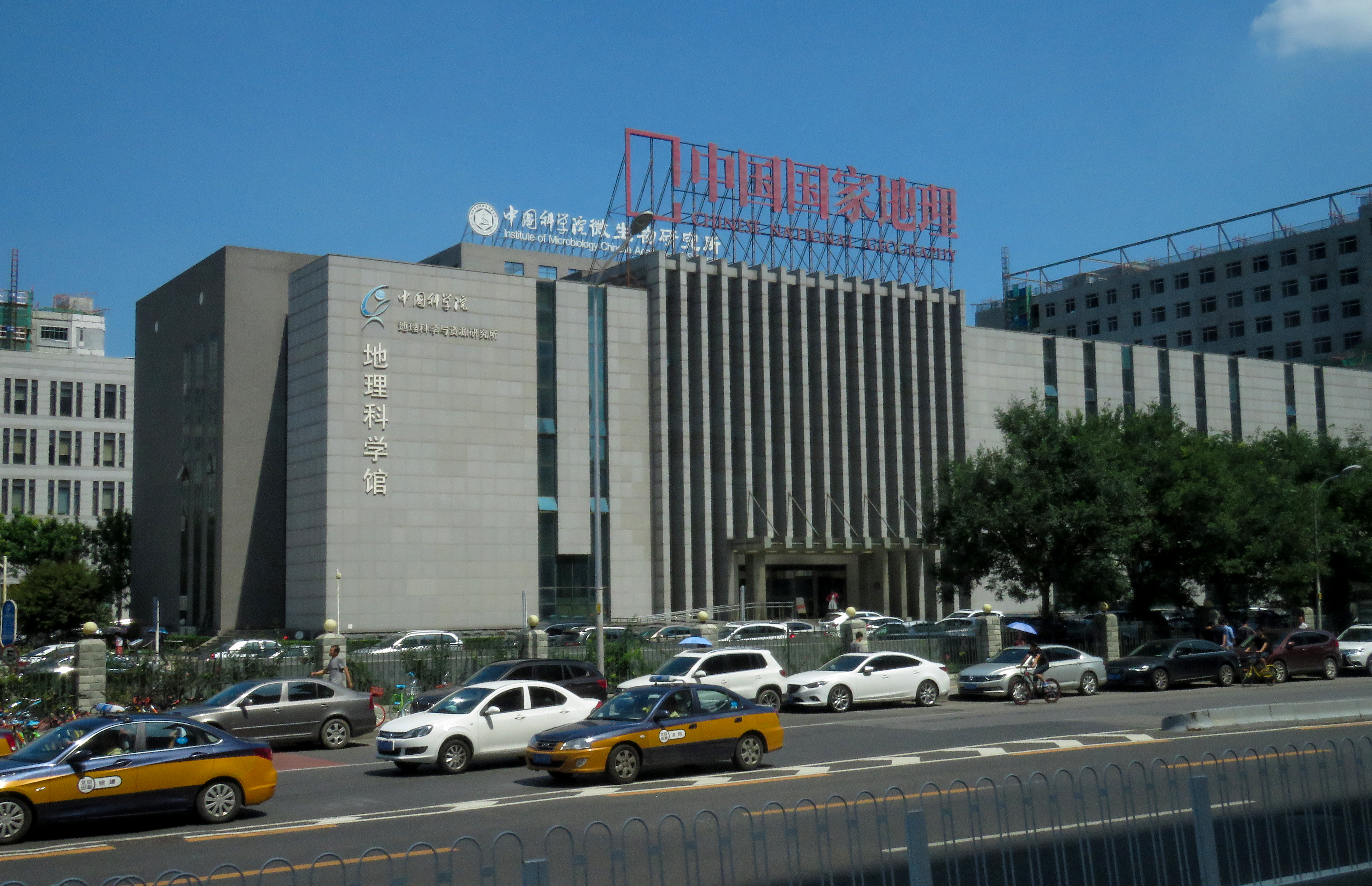 Part of the Institute of Geographic Sciences and Natural Resources Research, CAS.